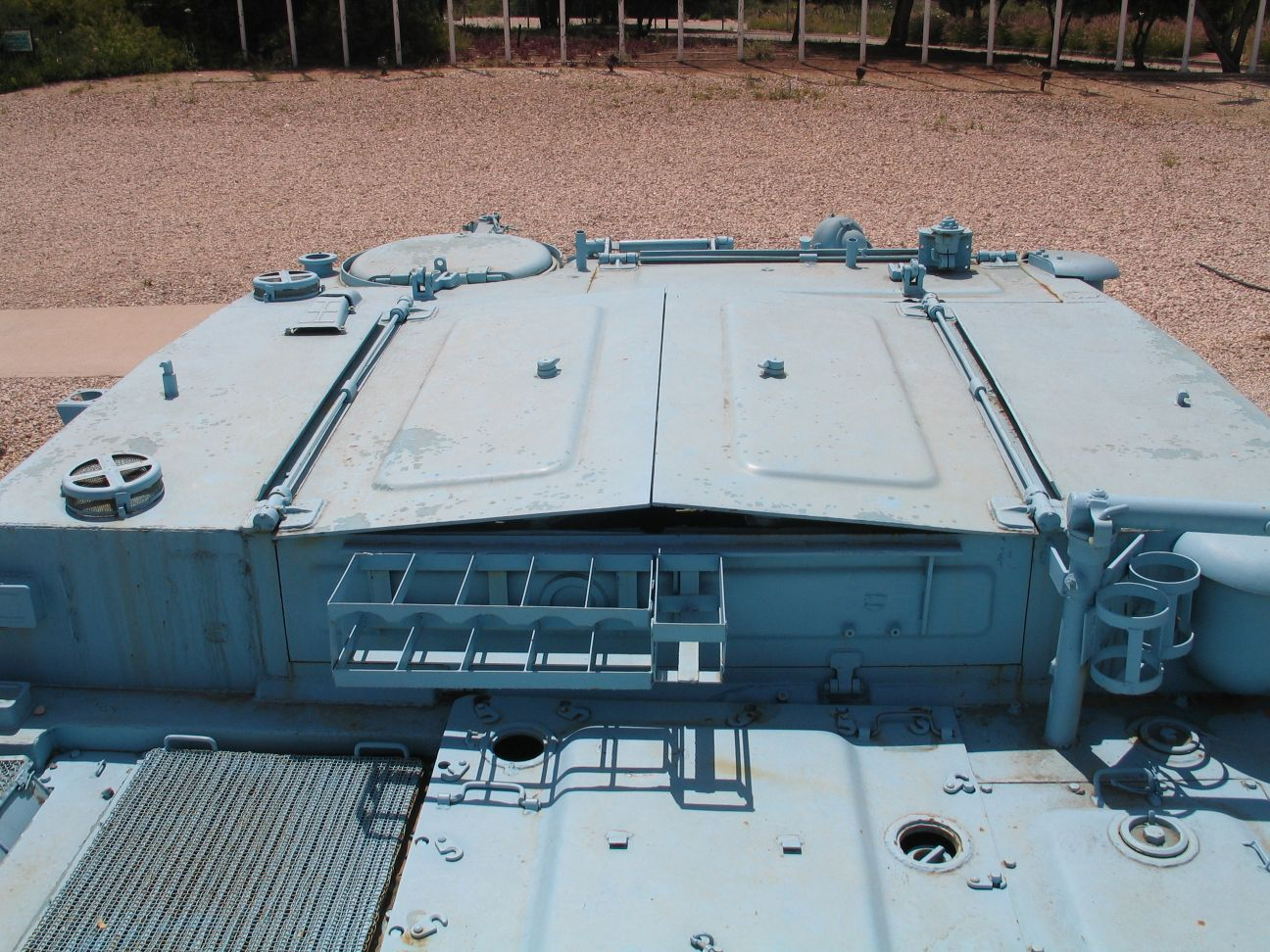 BTR-50-based medevac vehicle in Yad la-Shiryon Museum, Israel. The vehicle was used by the South Lebanon Army.